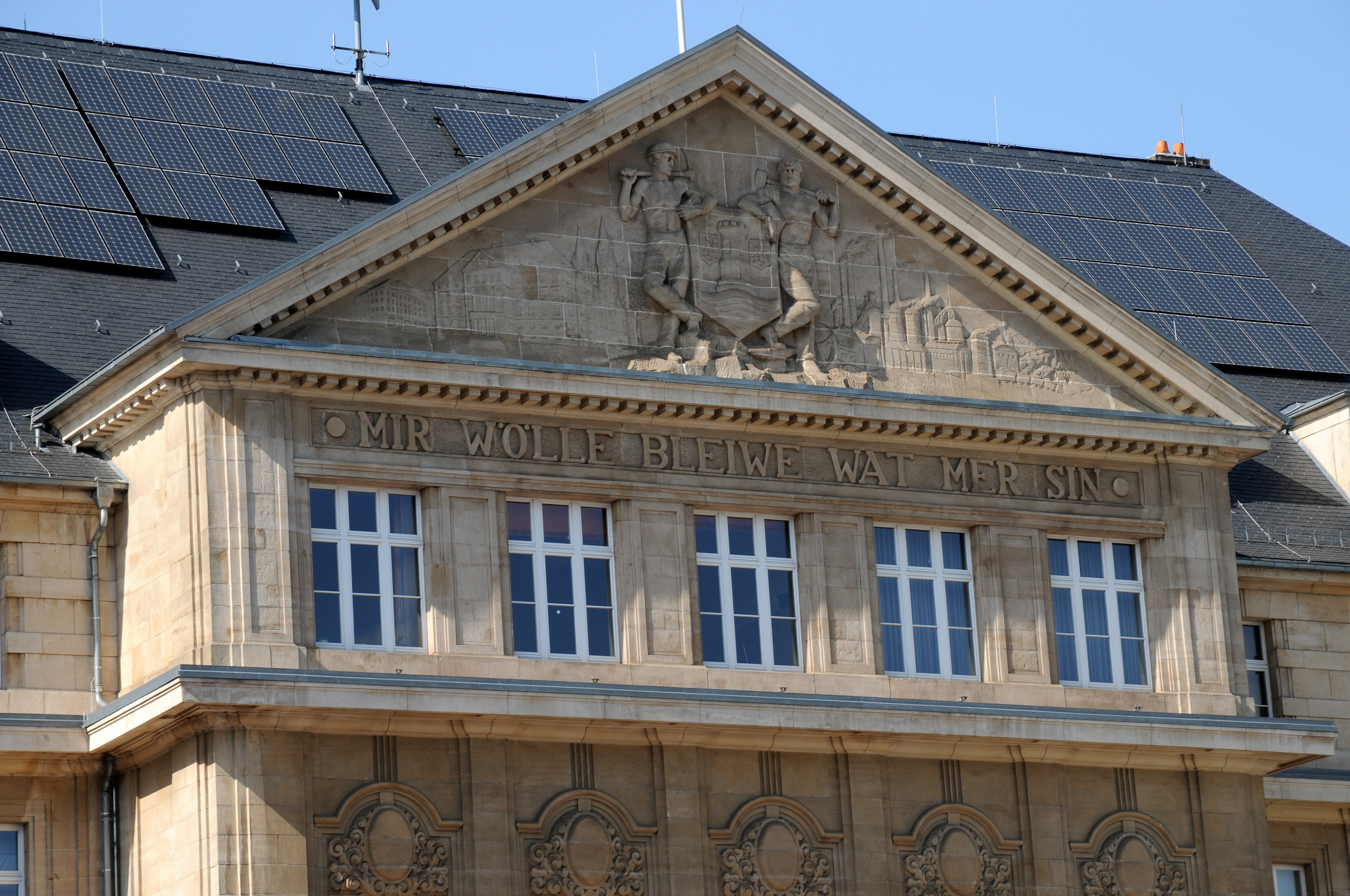 Inscription on the townhouse in Esch-sur-Alzette.